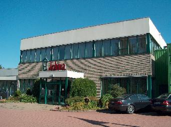 Entrance to Johma, Losser.